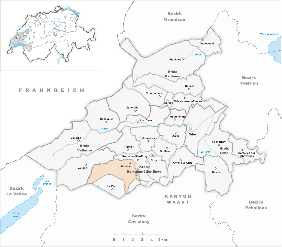 Municipality Juriens